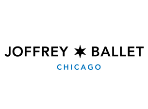 Logo of the American Ballet Company Joffrey Ballet